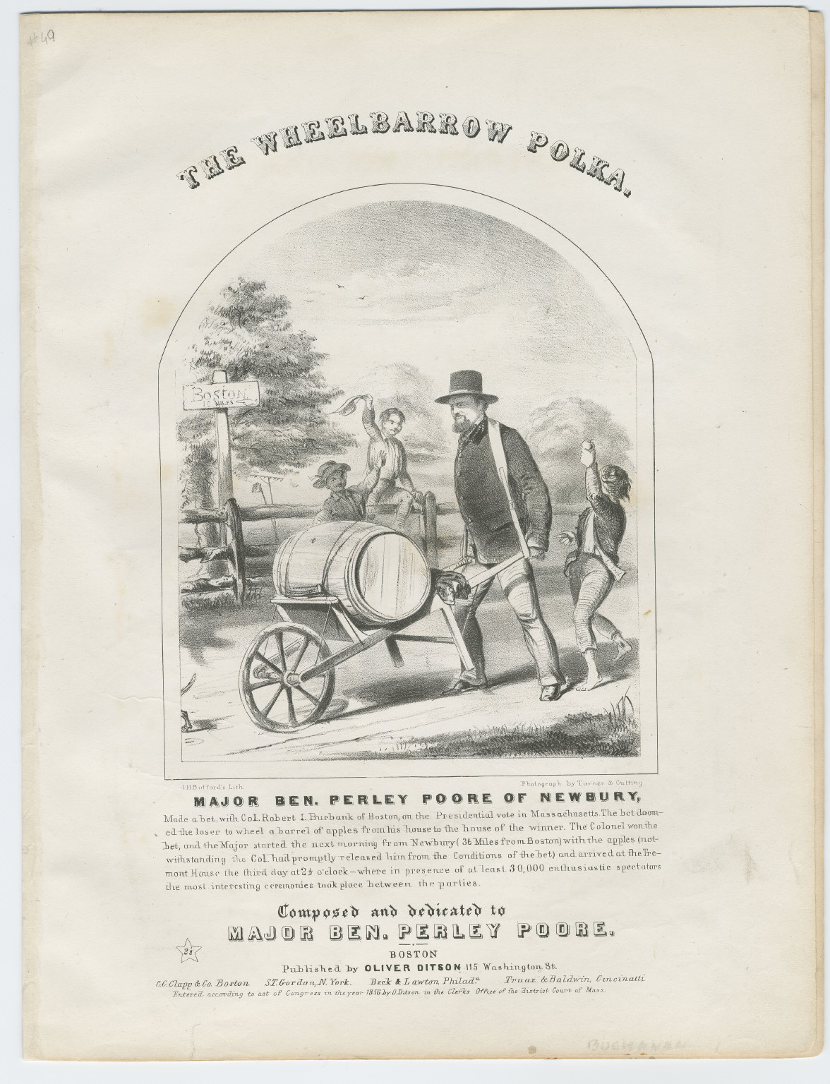 Collection: Cornell University Collection of Political Americana, Cornell University Library Repository: Susan H. Douglas Political Americana Collection, #2214 Rare & Manuscript Collections, Cornell University Library, Cornell University Title: The Wheelbarrow Polka (Boston: Ditson, 1856) "Major Ben. Perley Poore of Newbury made a bet with Col. Robert I. Burbank of Boston on the presidential vote in Massachusetts. The bet doomed the loser to wheel a barrel of apples from his house to the house of the winner. The Colonel won the bet, and the Major started the next morning from Newbury (36 miles from Boston) with the apples ... and arrived at the Tremont House the third day at 2-1/2 o'clock -- where in the presence of at least 30,000 enthusiastic spectators the most interesting ceremonies took place between the parties." J.H. Bufford's Lith. Election Year: 1856 Date Made: 1856 Measurement: Sheet Music: 14 x 10 1/2 in.; 35.56 x 26.67 cm Classification: Publications Persistent URI: There are no known U.S. copyright restrictions on this image. The digital file is owned by the Cornell University Library which is making it freely available with the request that, when possible, the Library be credited as its source.